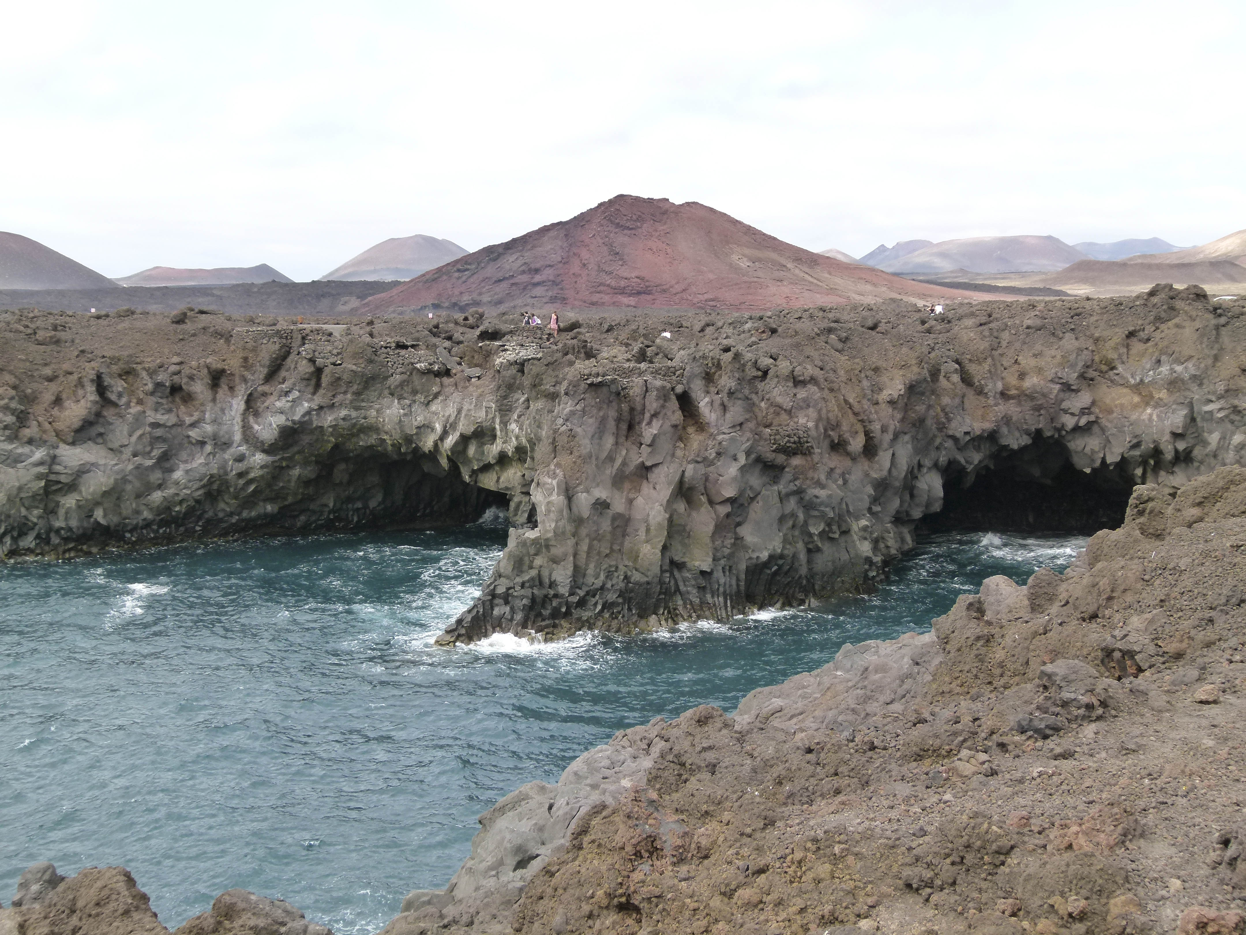 Los Hervideros, Lanzarote, Canary Islands, Spain. In the background: Montaña Bermeja.